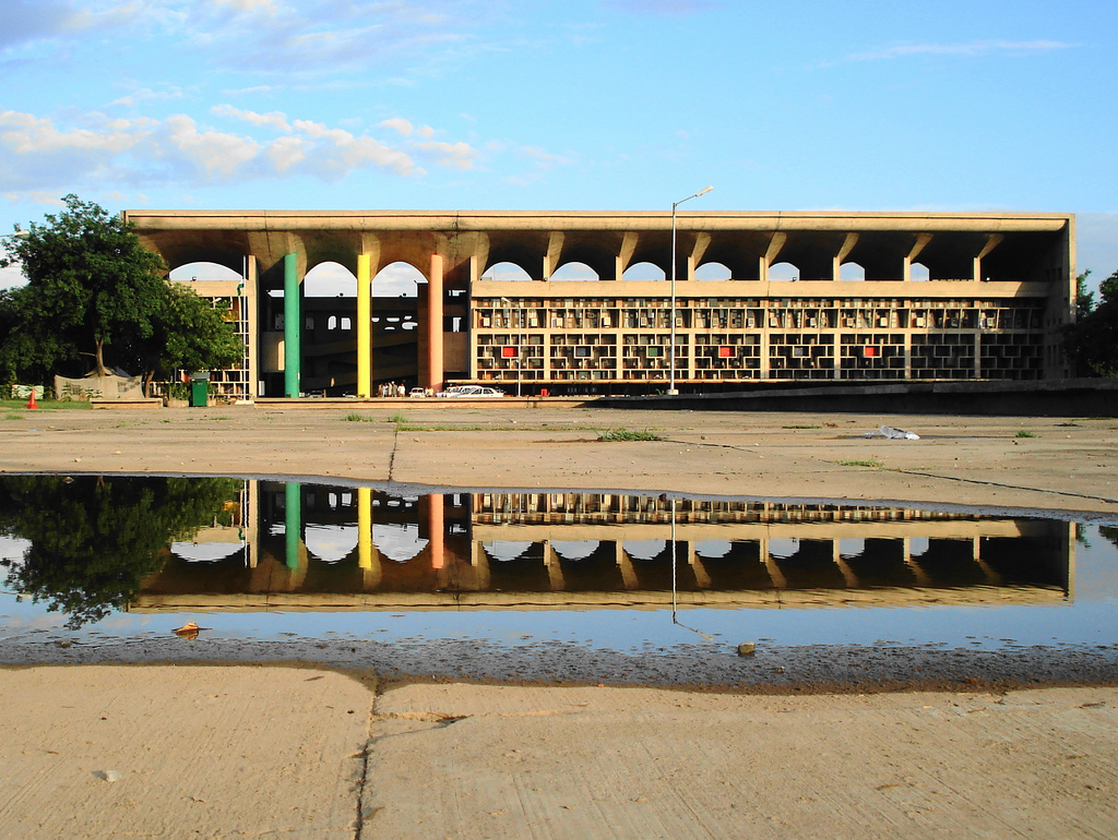 This photograph was selected for an exhibition at the high court, Chandigarh. The linear block with main facade towards Piazza. The rhythmic arcade of parasol like roof, which shades the building in summer. Designed by Le Corbusier.